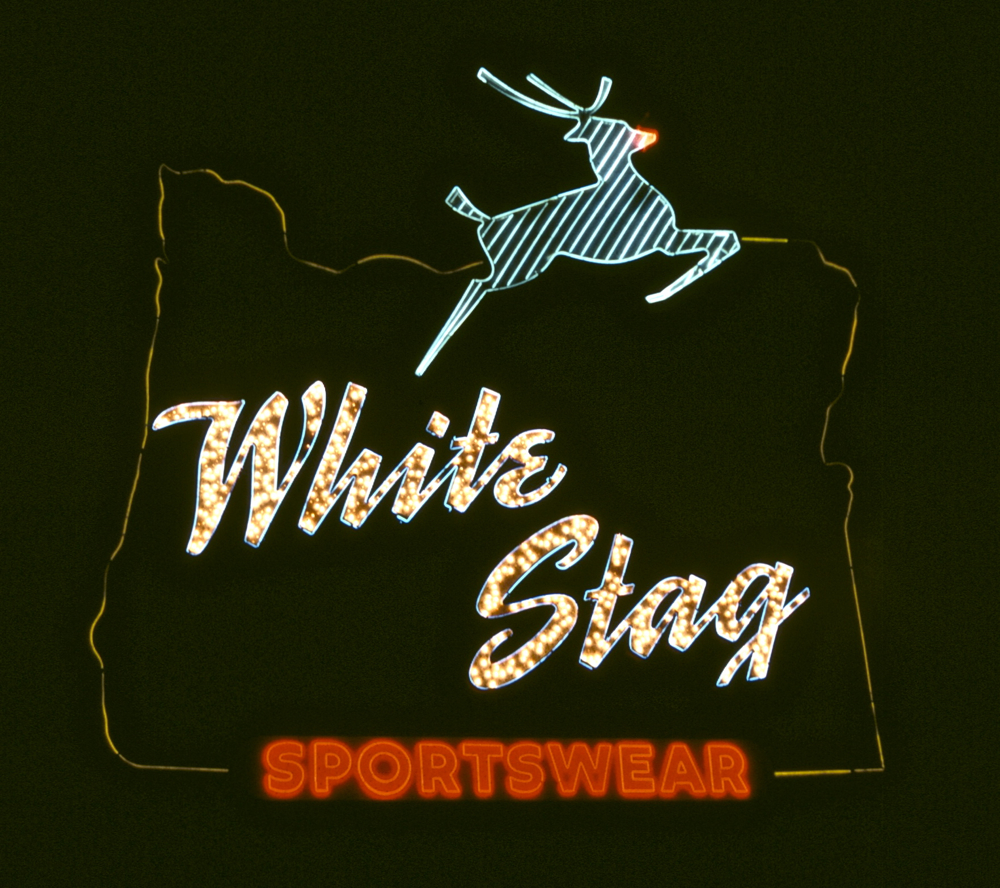 The White Stag Sign, in Portland, Oregon, at night. The sign displayed this wording from 1957 until 1997. During the Christmas and holiday season, a simulated "red nose" placed over the stag's snout is turned on, in imitation of the character, Rudolph the Red-Nosed Reindeer.